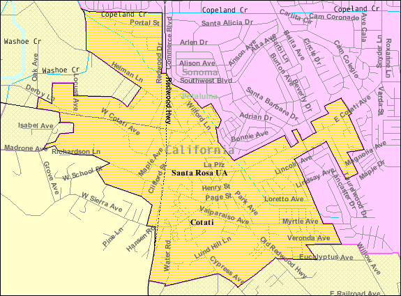 U.S. Census 2000 reference map for Cotati